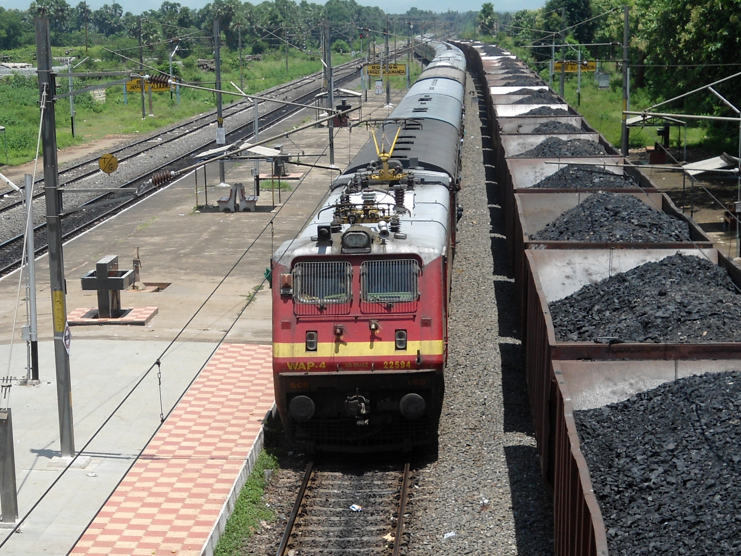 18463 Prashanti Express with LGD based WAP-4 Loco crossing Alamanda Railway Station, Vizianagaram district